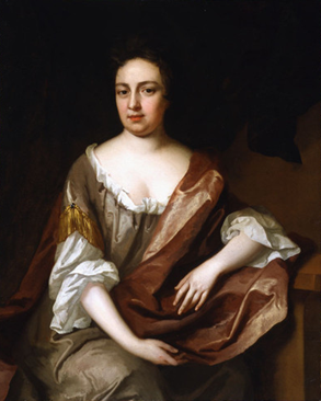 portrait matching pair with his portrait of her husband.